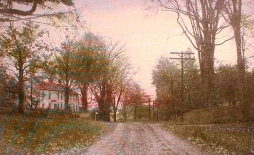 Street Scene, South Hampton, NH; from a c. 1910 postcard.